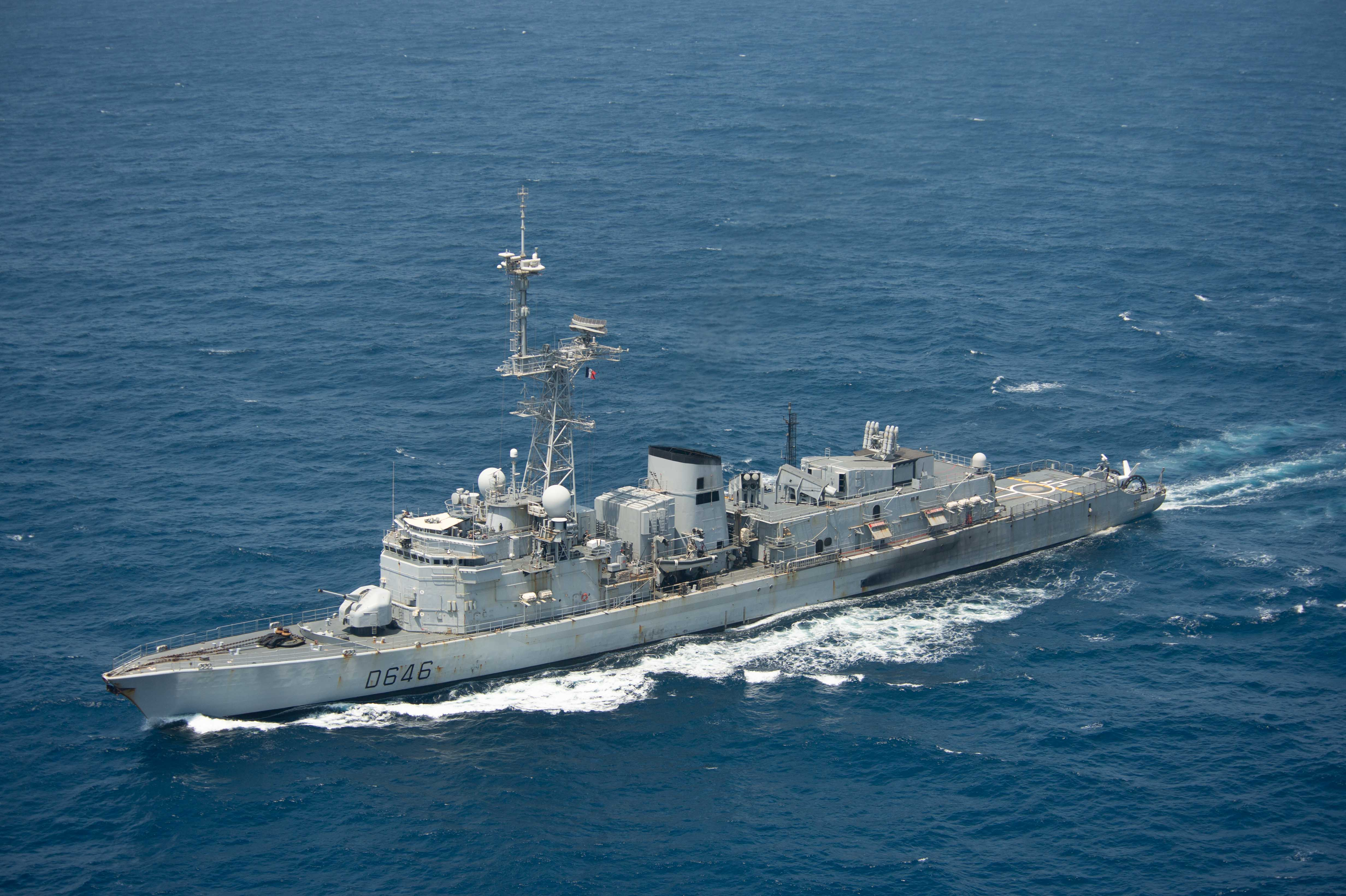 France's Marine Nationale anti-submarine destroyer Latouche-Tréville (D646) steams in the Gulf of Aden on 12 April 2019.